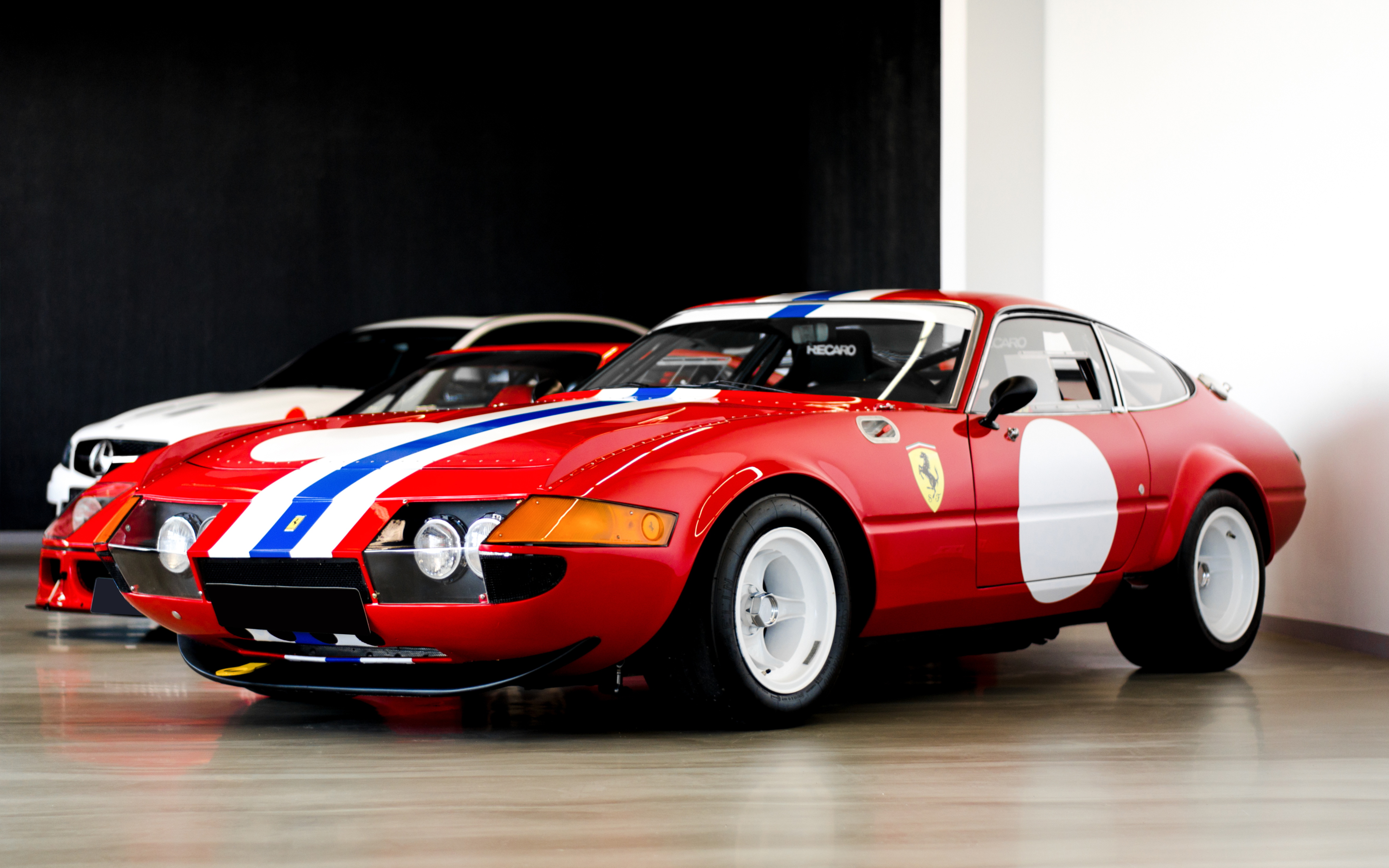 Not really a daily sight. My first "Daytona" Competizione, together with an F40 LM and a rather simple C 63 AMG 507. Additional info after being explored: Thanks all for comments and faves. I also liked the shot, but especially the cars in it where rather awesome. This 365 Competizione is at the moment about 1.5 million euros. The F40 LM is also for sale, but I don't know at what price :) Than there is the C 63 AMG 507, which seemed to be the first one I ever saw, and also this is the only picture I've got of this car, because it really wasn't that interesting together with these cars :) The funny thing is that I later on the day saw a C 63 AMG 507 coupé driving through the city of Siegen in Germany. Than he parked somewhere and I still decided to take not a single picture. Stupid me perhaps, but after all the other cars I saw that day...